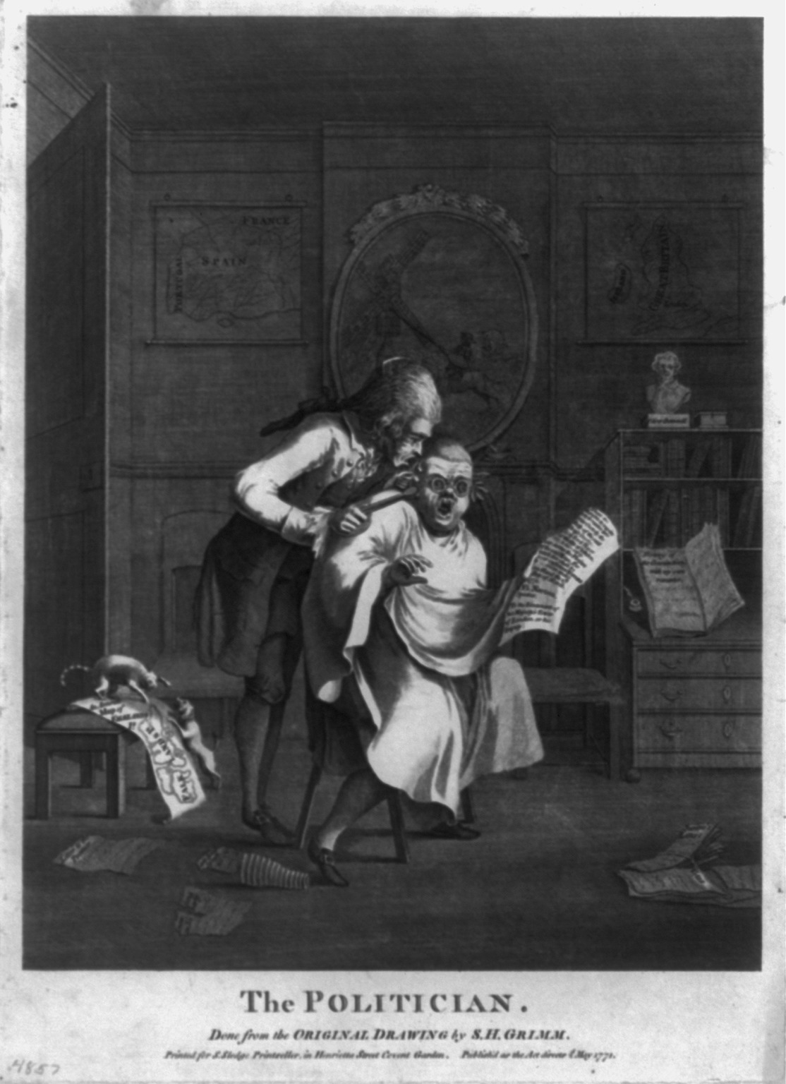 Title: The politician Abstract: A caricature portrait of Lord North with a gaping toothless mouth, sitting draped in a sheet, while a French hairdresser applies tongs to his hair, and appears to be whispering in his ear. The politician starts in alarm as he holds the Speaker's Warrant dated 27 Mar. 1771, to the Lieutenant of the Tower to receive the Lord Mayor into custody. Hanging from a stool is "An Accurate Map of Falkland Is.". A bust of Oliver Cromwell is on top of the bookcase. Physical description: 1 print : engraving. Notes: Forms part of : British Cartoon Prints Collection (Library of Congress).; cf: P&P - NE55.L7A3 vol. 5, no. 4857.; Engraving after Drawing by S.H. Grimm.; This record contains unverified data from caption card.